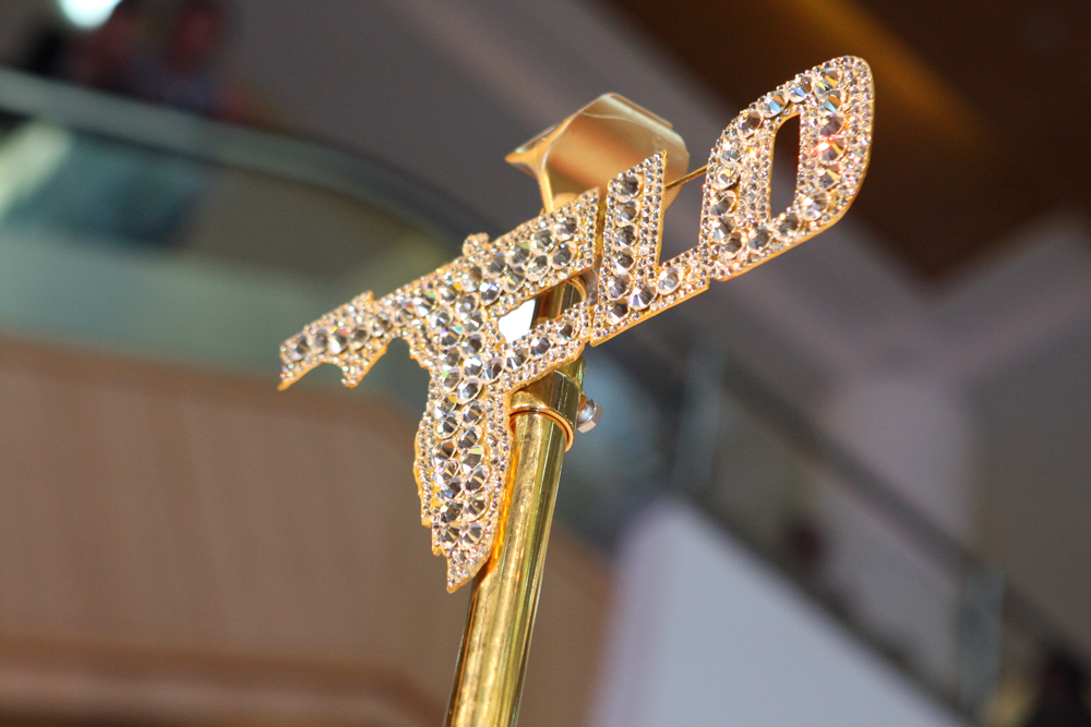 Flo Rida in Sydney.